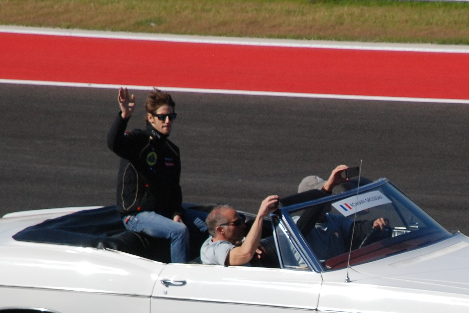 Romain Grosjean, United States Grand Prix, Austin 2012